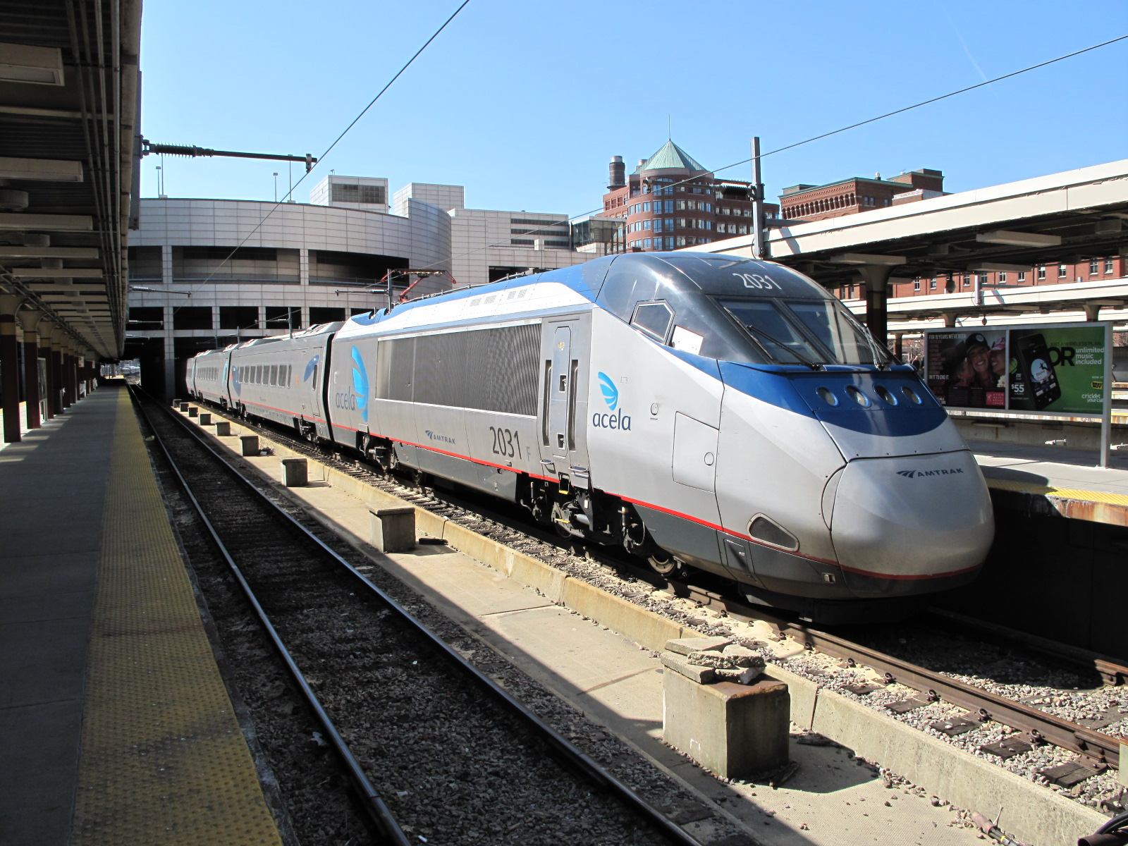 2031 at Boston South Station